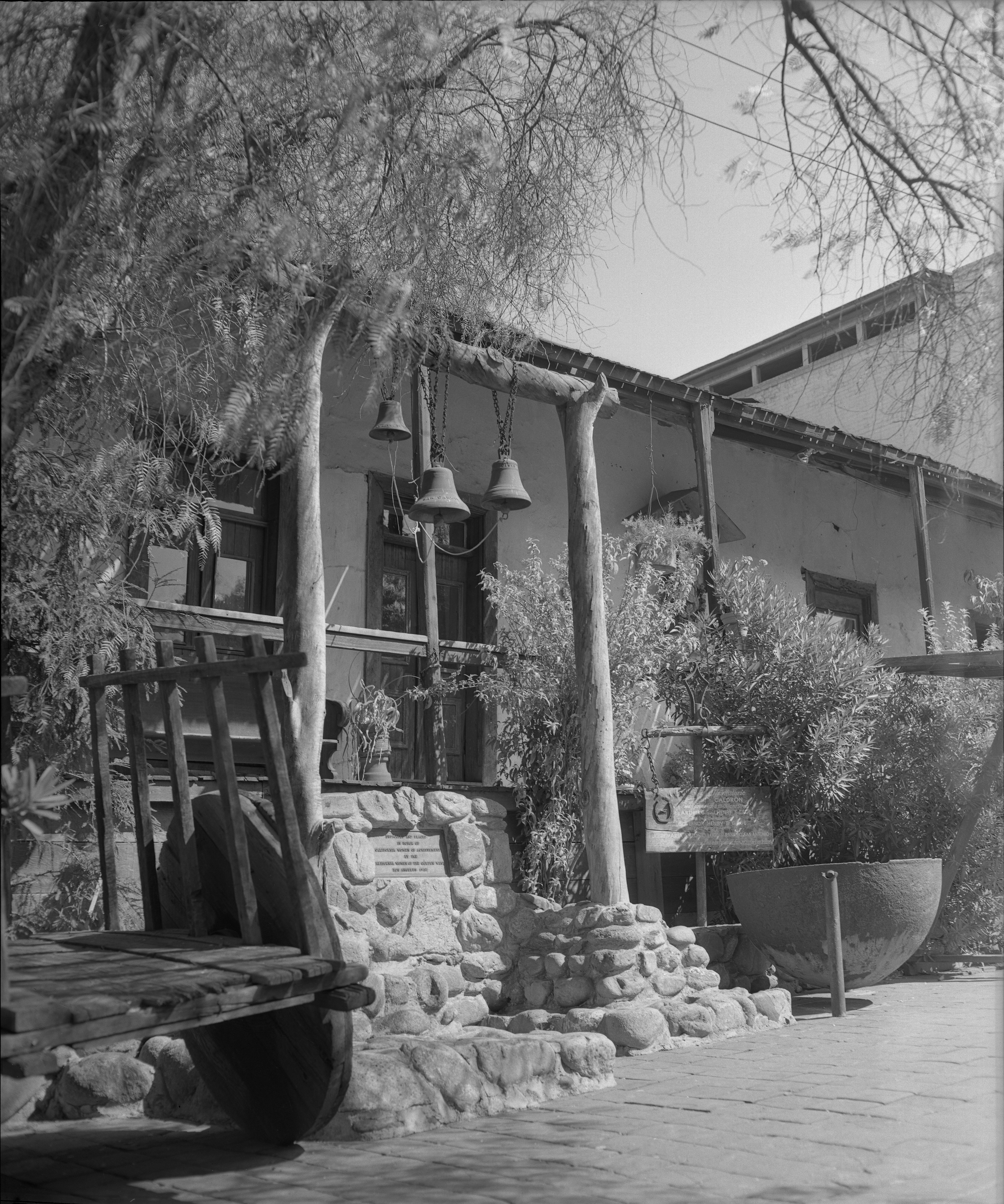 Title: Know Your City No.249 Front porch and marker of Avila Adobe on Olvera Street, Los Angeles, Calif. Published caption KNOW YOUR CITY, NO.249 -- How better to begin the windup of this series than at the beginning. And that's what you see here--the beginning. It is probably one of city's most historical structures. If you don't know the answer, then look on Page 14, Part 1. Notes ANSWER: The structure in the photo is the Avila Adobe, generally conceded to be the oldest building in Los Angeles. It is located at 14 Olvera Street. Built in 1818 by Don Francisco Avila, it served as American headquarters in 1847 when U.S. troops captured the city. It has the further distinction of having flown four flags--Spanish, Mexican, the California Republic, and the Stars and Stripes. And, as Consuelo de Bonzo, "Queen" of Olvera Street, puts it: "It is the only place in the world around here like that." Publication Los Angeles Times Publication date July 24, 1956 Source Los Angeles Times photographic archive, Digital collections — UCLA Library. Note about non-renewal of copyright: [1]